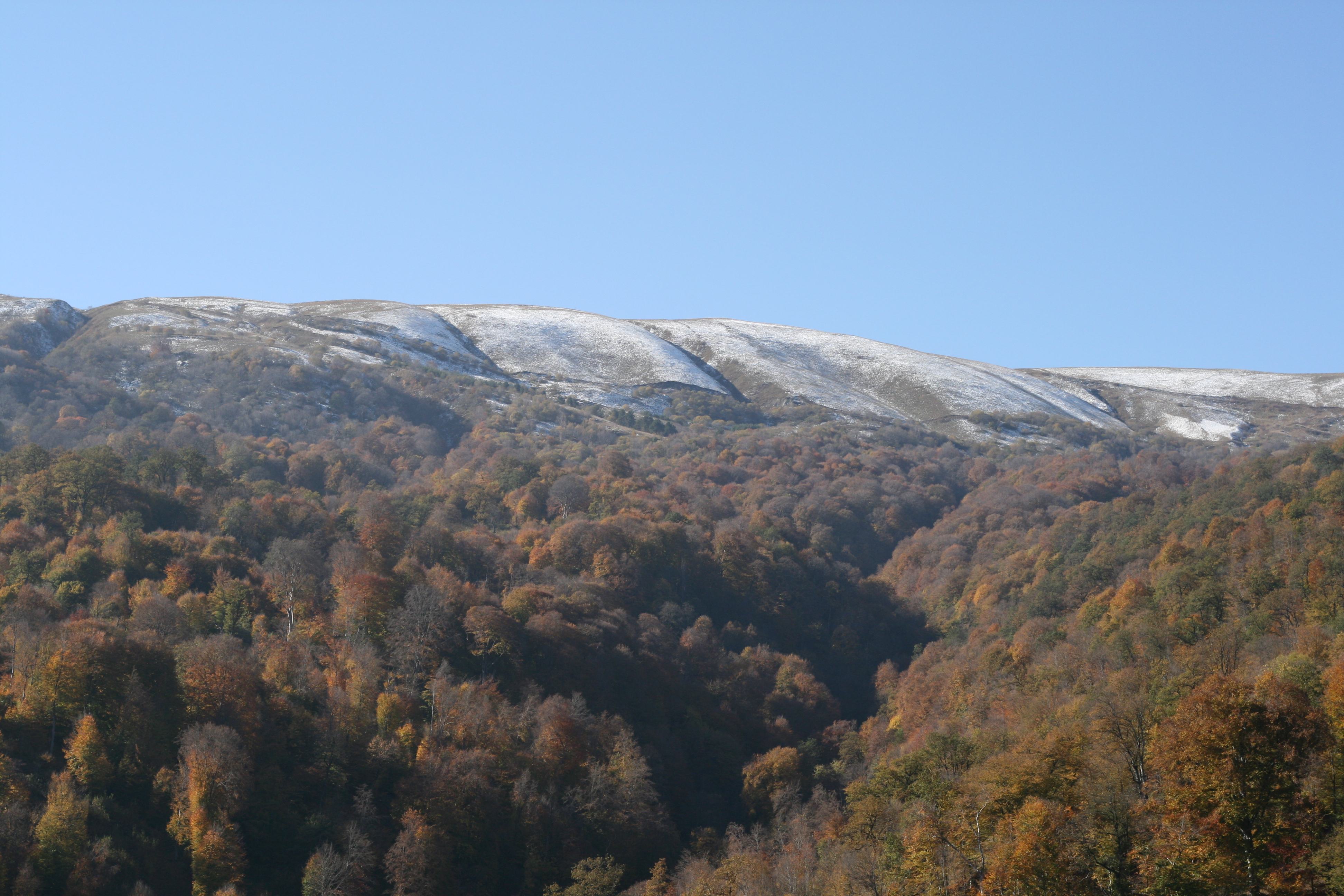 Middle Caucasus Dilijan mountains.